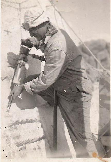 This is a photo of Luigi Del Bianco who was the chief carver on Mount Rusdhmore National Memorial. This shot is of him working on the Washington head